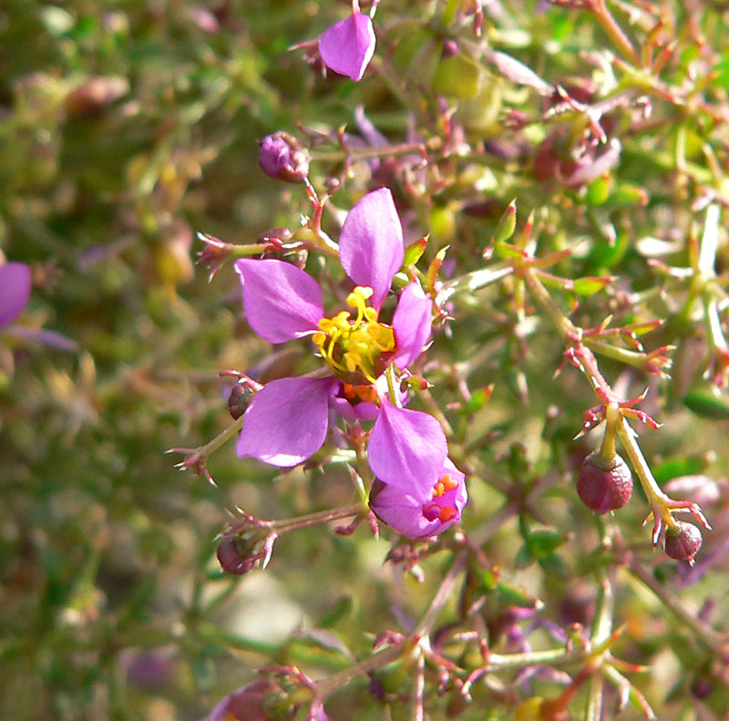 Fagonia laevis near route 178, two miles east of Jubilee Pass, Death Valley National Park